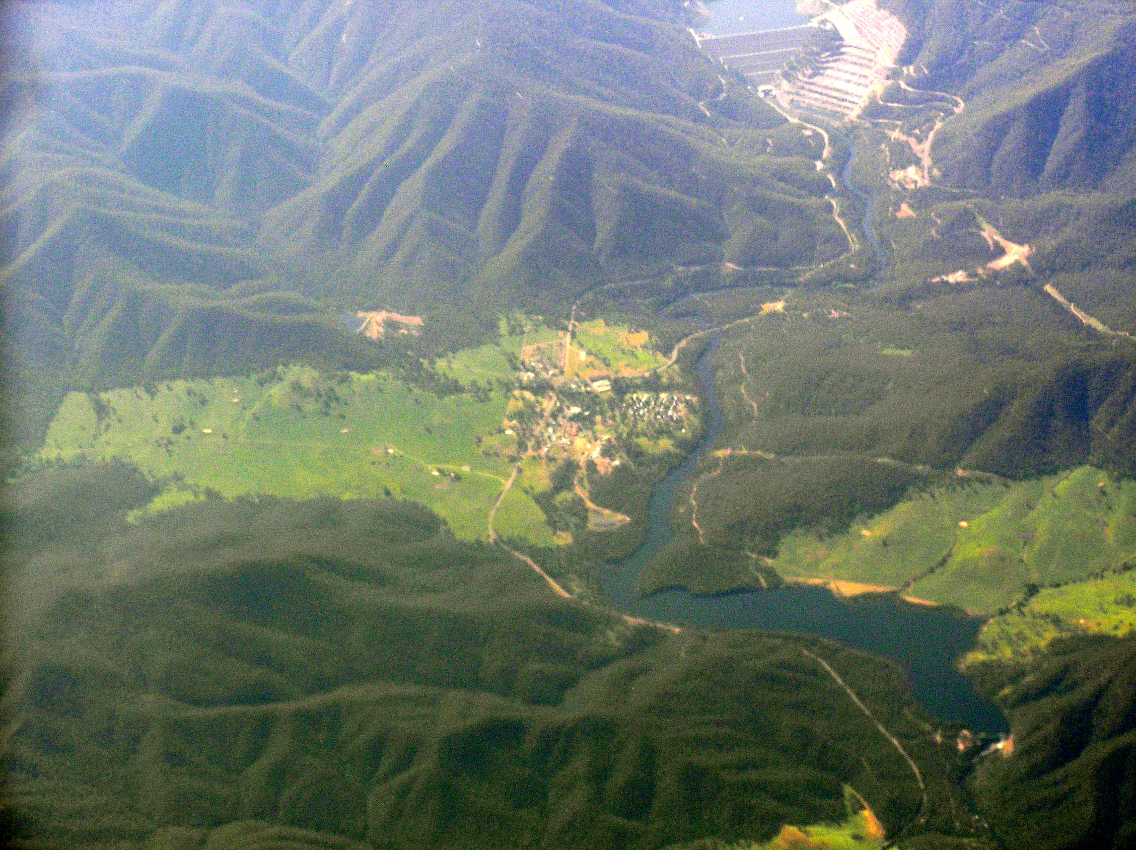 Aerial view of Dartmouth, Victoria, Australia, with the Dartmouth Dam in the background.